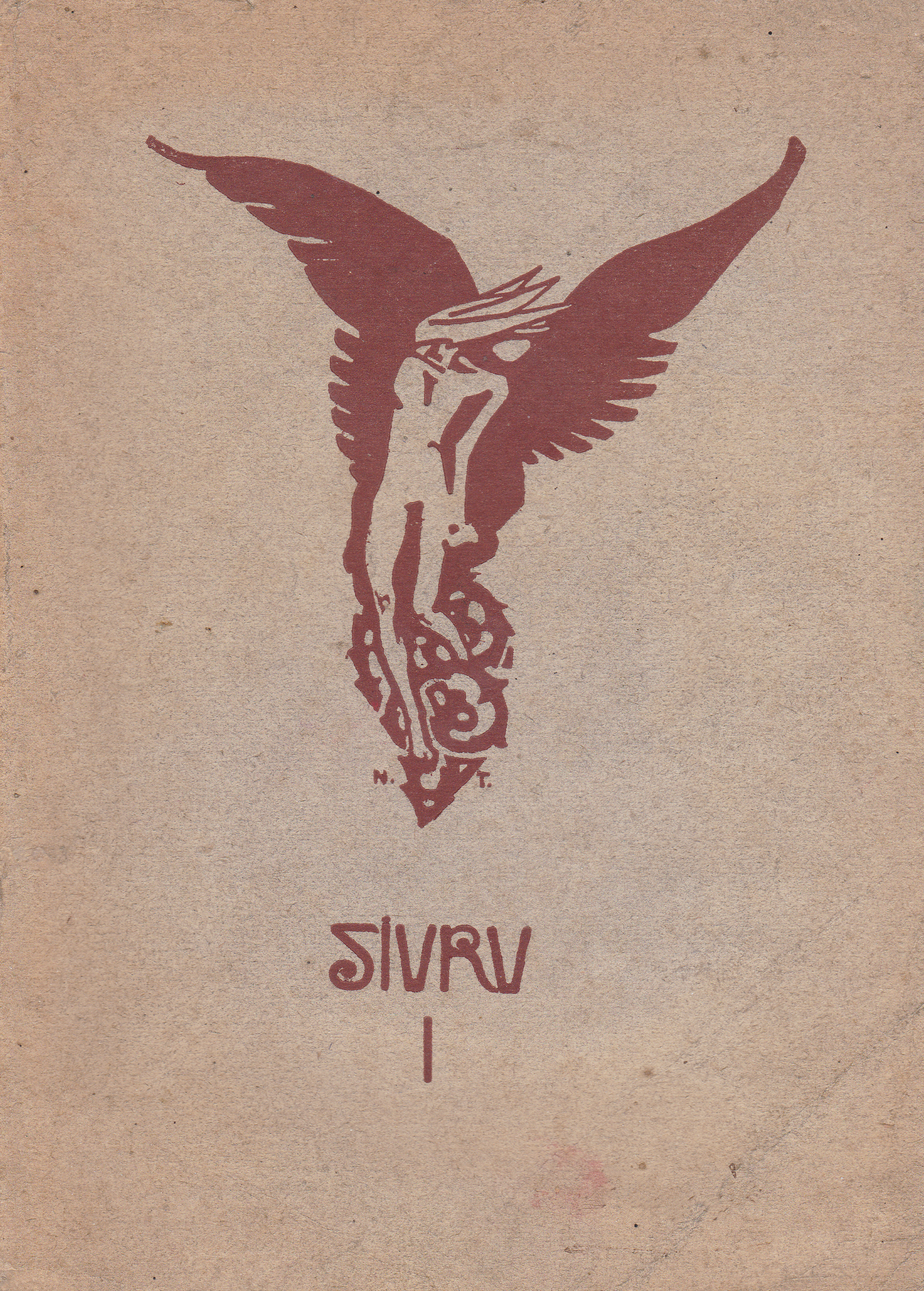 Cover of the 1st album of Siuru literary movement, designed by Nikolai Triik (1884–1940).